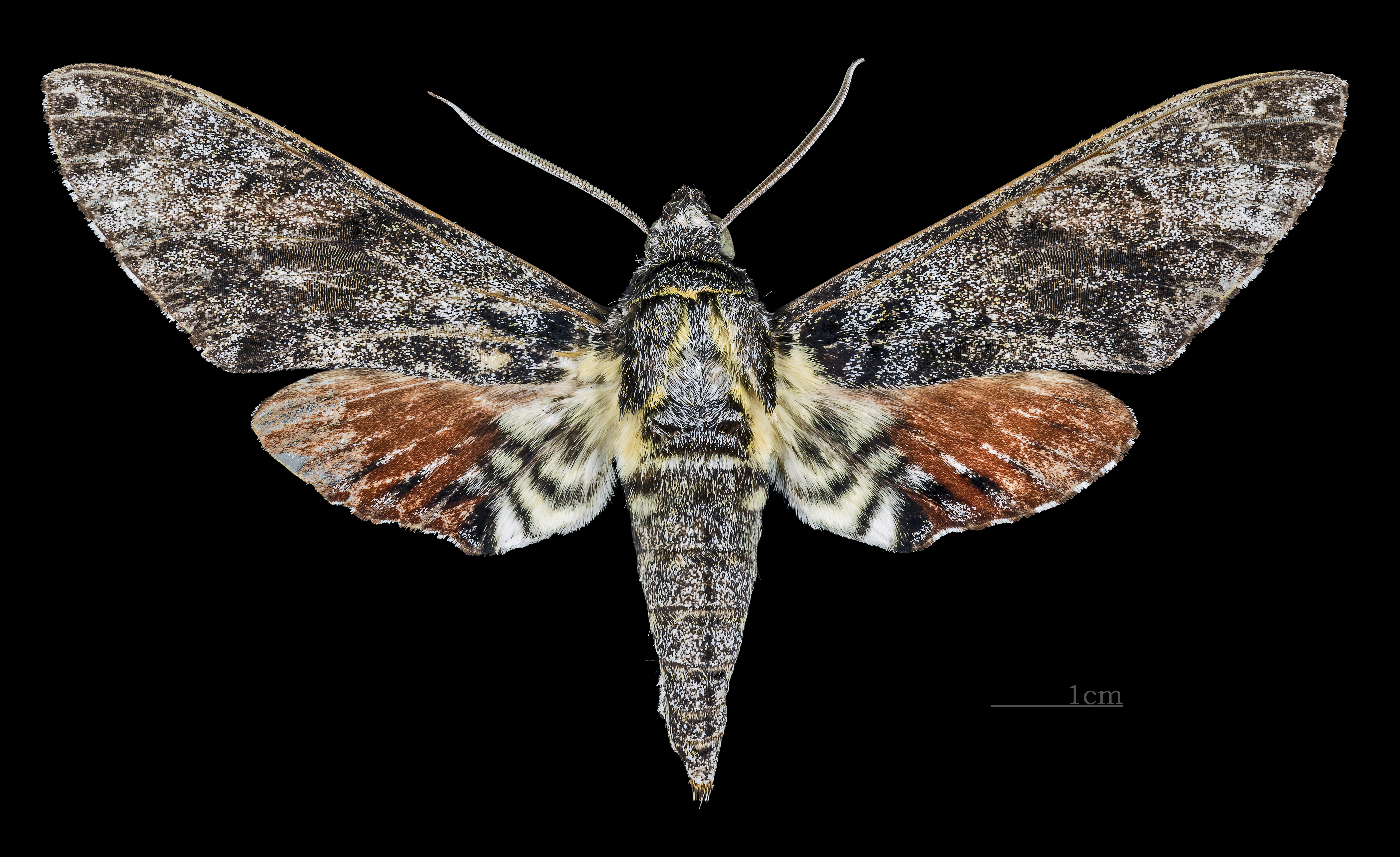 Tetrachroa edwardsi - Dorsal side Collection of the Mathematician Laurent Schwartz